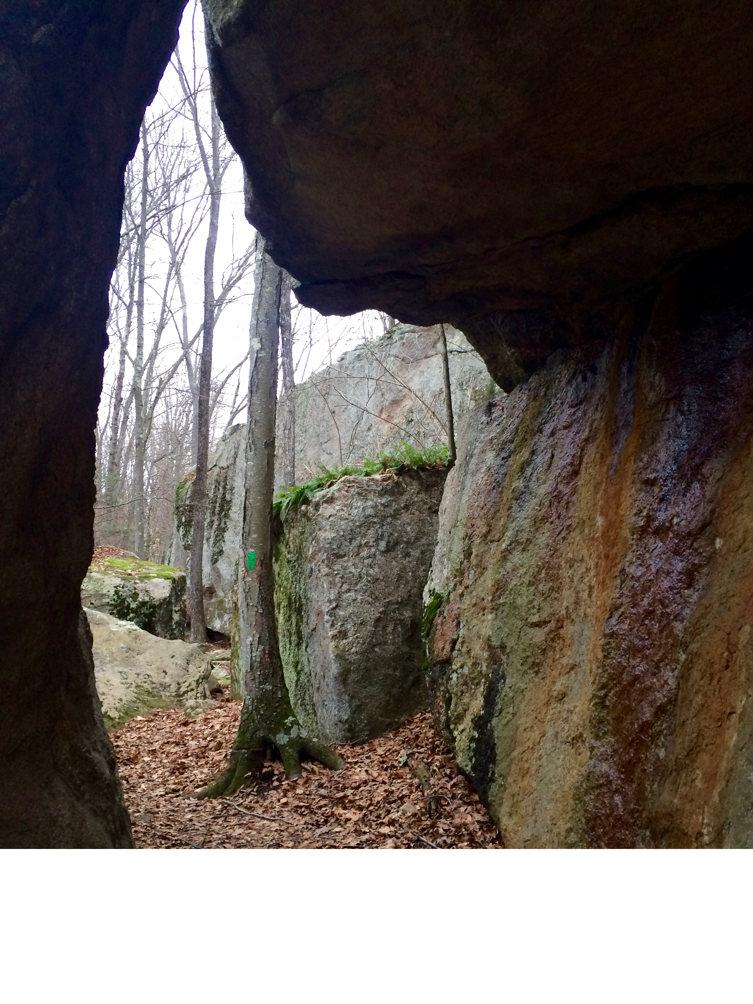 Green Rectangle Trail passing through Rock Cave near Moose Hill Road in the Westwoods Preserve, Guilford, Connecticut.